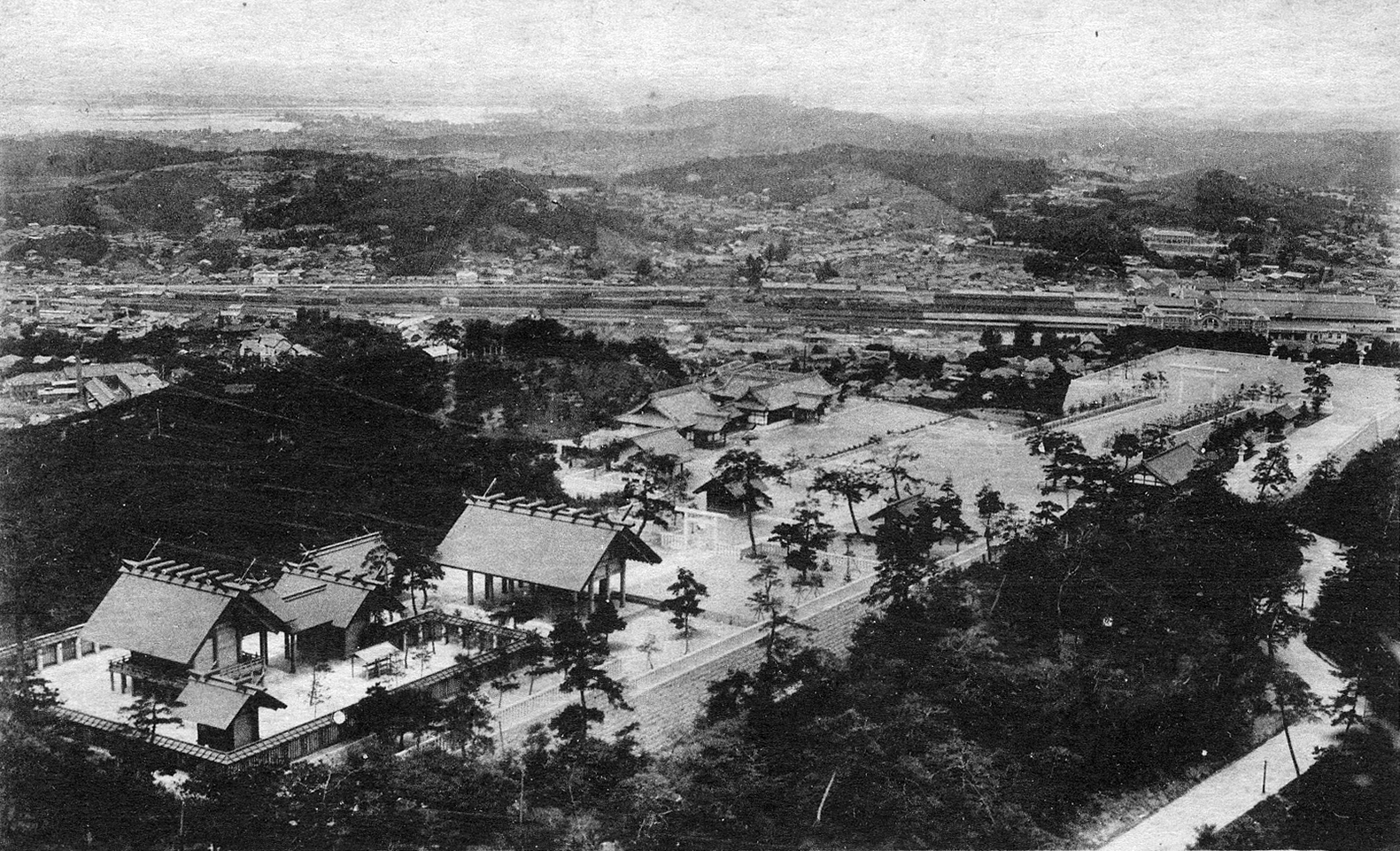 Early 20th century Japanese postcard of the Chōsen Jingu (Korea Shrine) in Seoul (1925-1945)